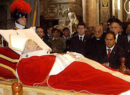 The body of Pope John Paul II in St. Peter's Basilica. At right is Daniel Scioli pictured, then vice president of Argentina.